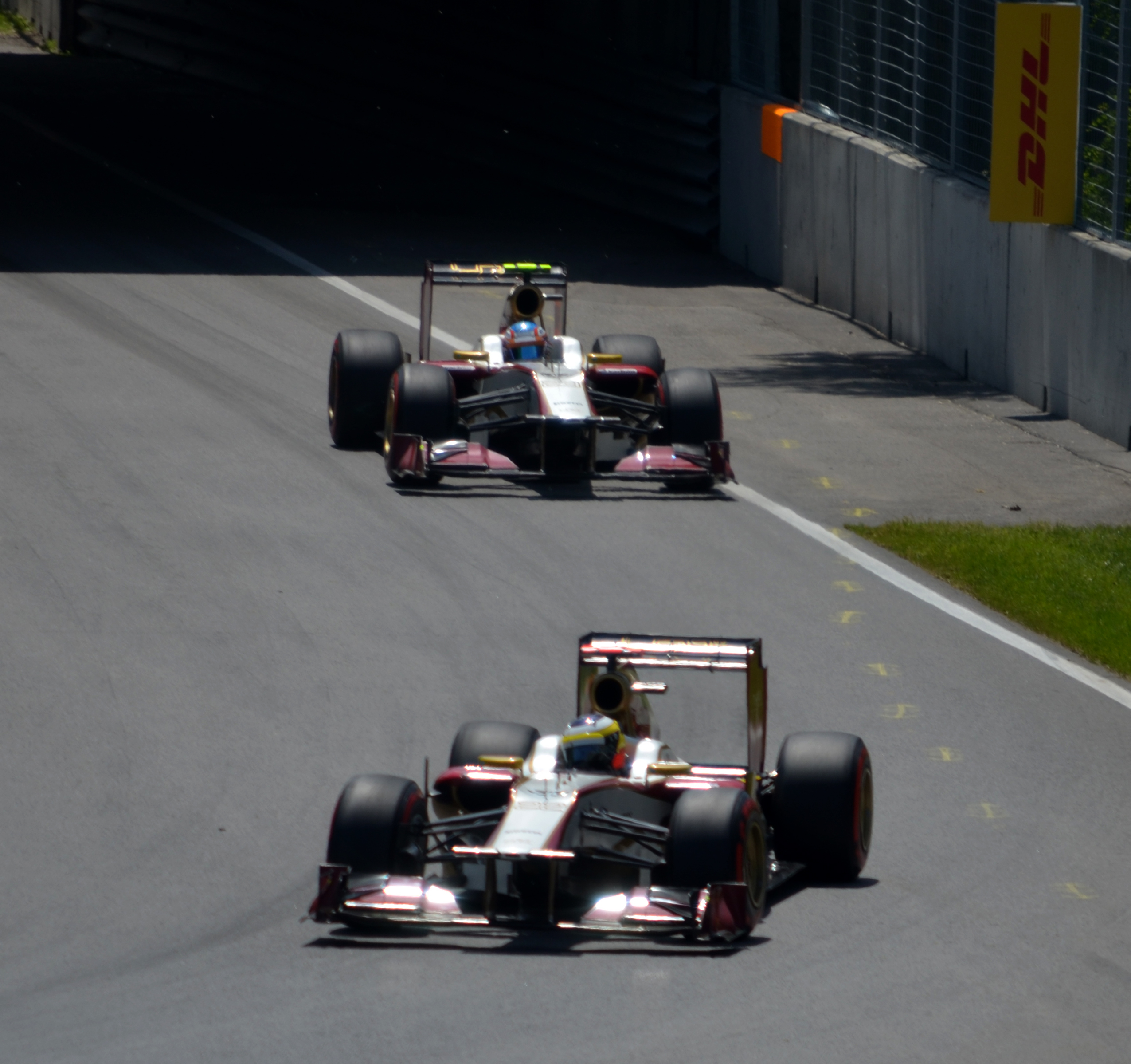 Pedro De La Rosa leads team mate Narain Karthikeyan both driving the HRT - Cosworth F112 toward turn 8 of Circuit Gilles Villeneuve during qualifying for the 2012 Canadian Grand Prix.